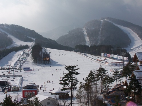 Yongpyong (Dragon Valley) ski resort will be at the center of PyeongChang Winter Games. (ATR)